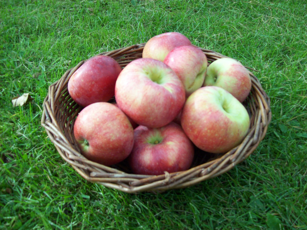 Aroma, a Swedish apple cultivar; a cross between Ingrid-Marie and Filippa.